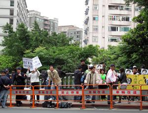 ECFA debate between Ma Ying-jeou and Tsai Ing-wen